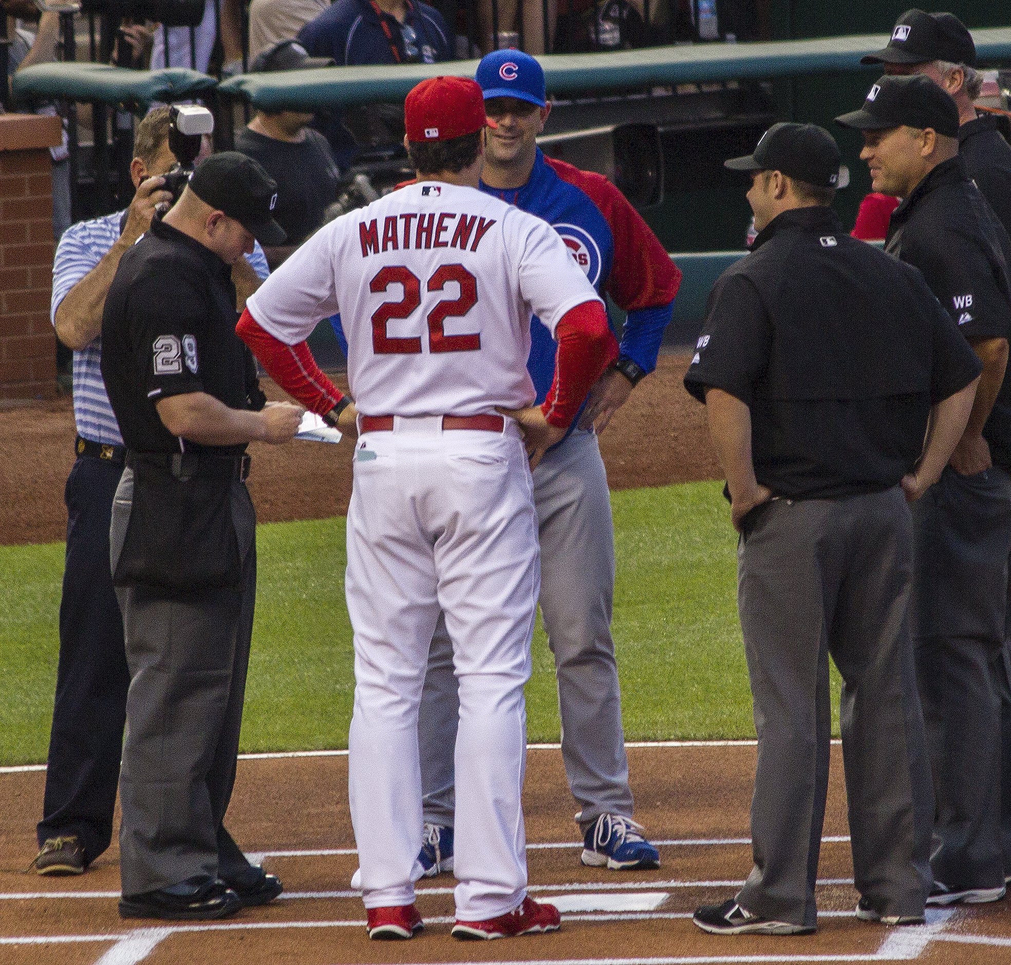 Mike Matheny, Cardinal manager presents lineup 2014.